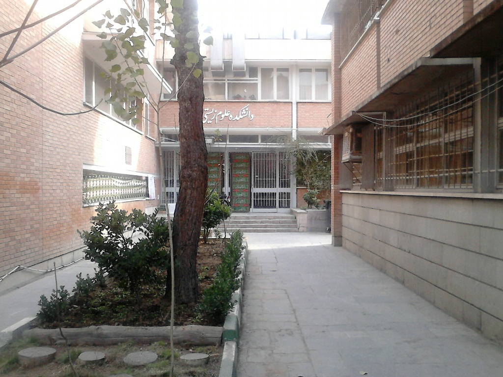 School of Biological Sciences in Shahid Beheshti Univrsity in Iran, Tehran.